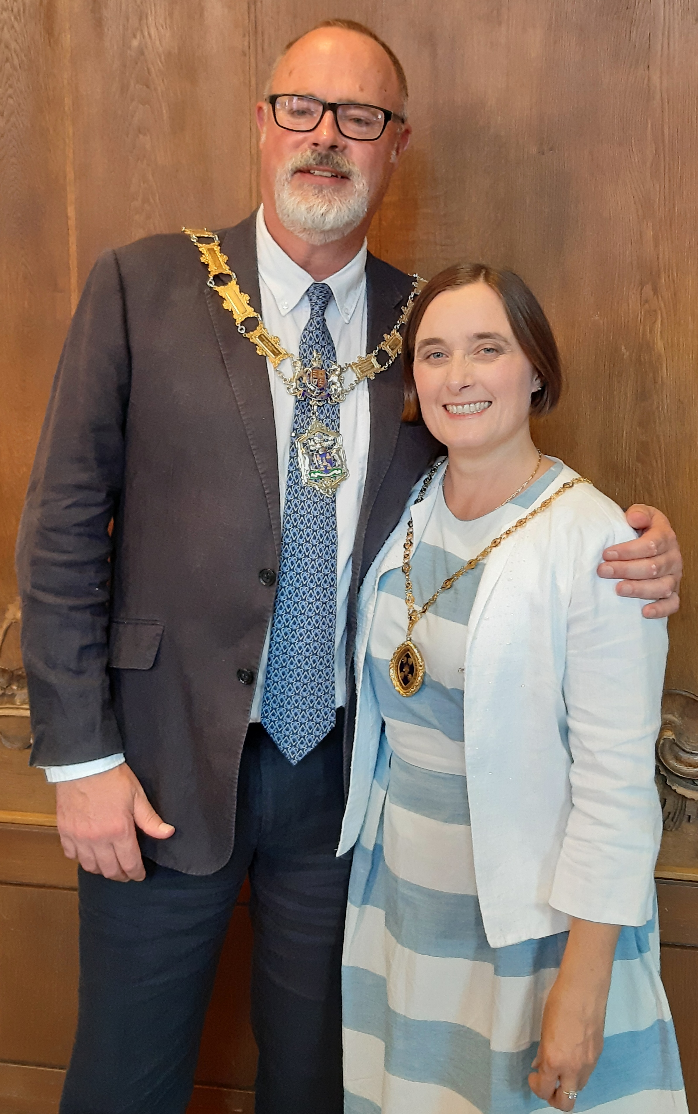 Paul Woodward, Councillor of the Reading Borough Council and mayoress Lindsay Montgomery in Düsseldorf